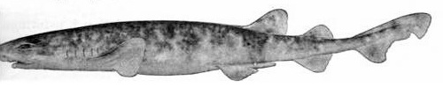 Blotchy swell shark (Cephaloscyllium umbratile)